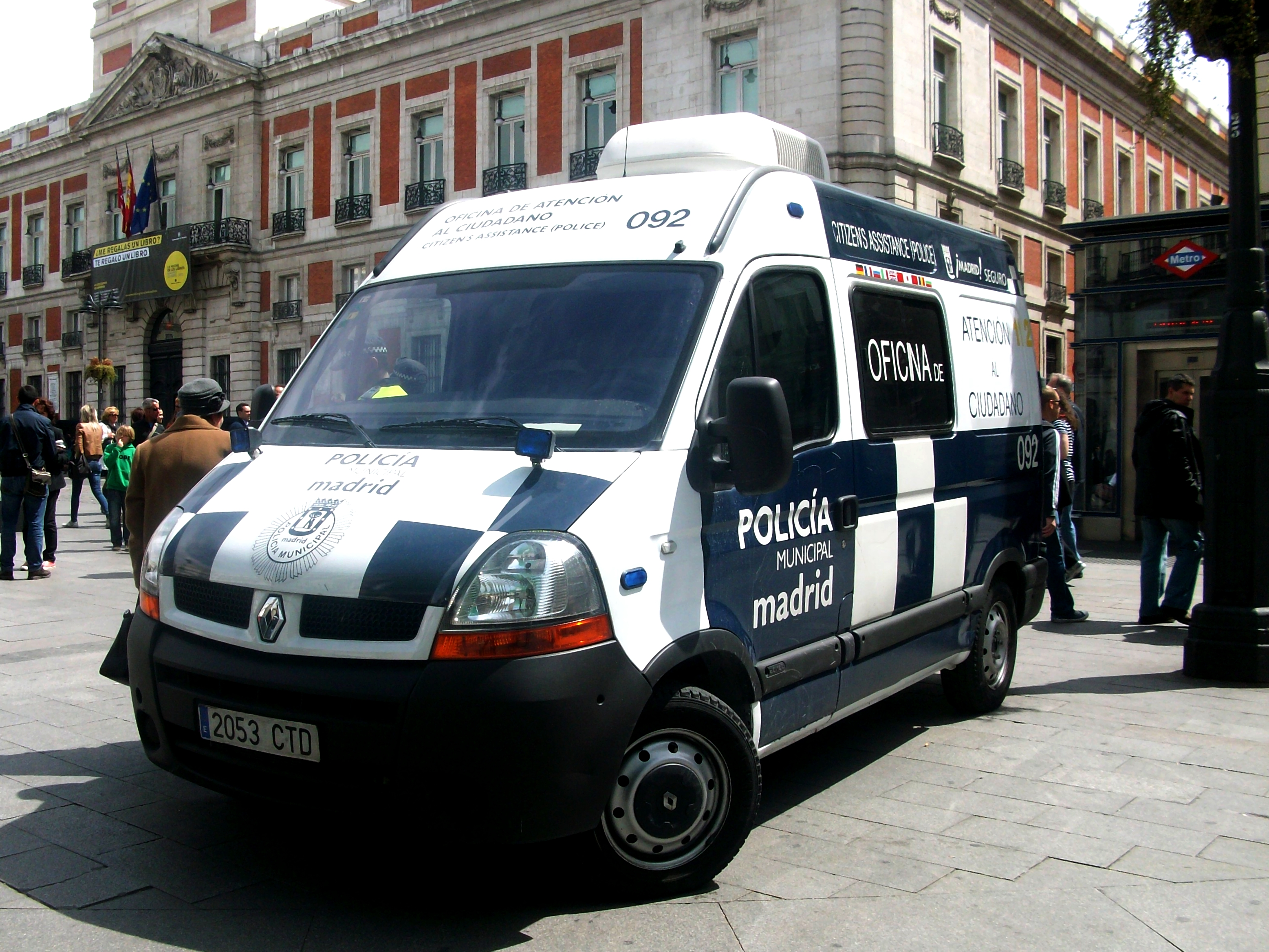 Vehicle of the Policía Municipal de Madrid